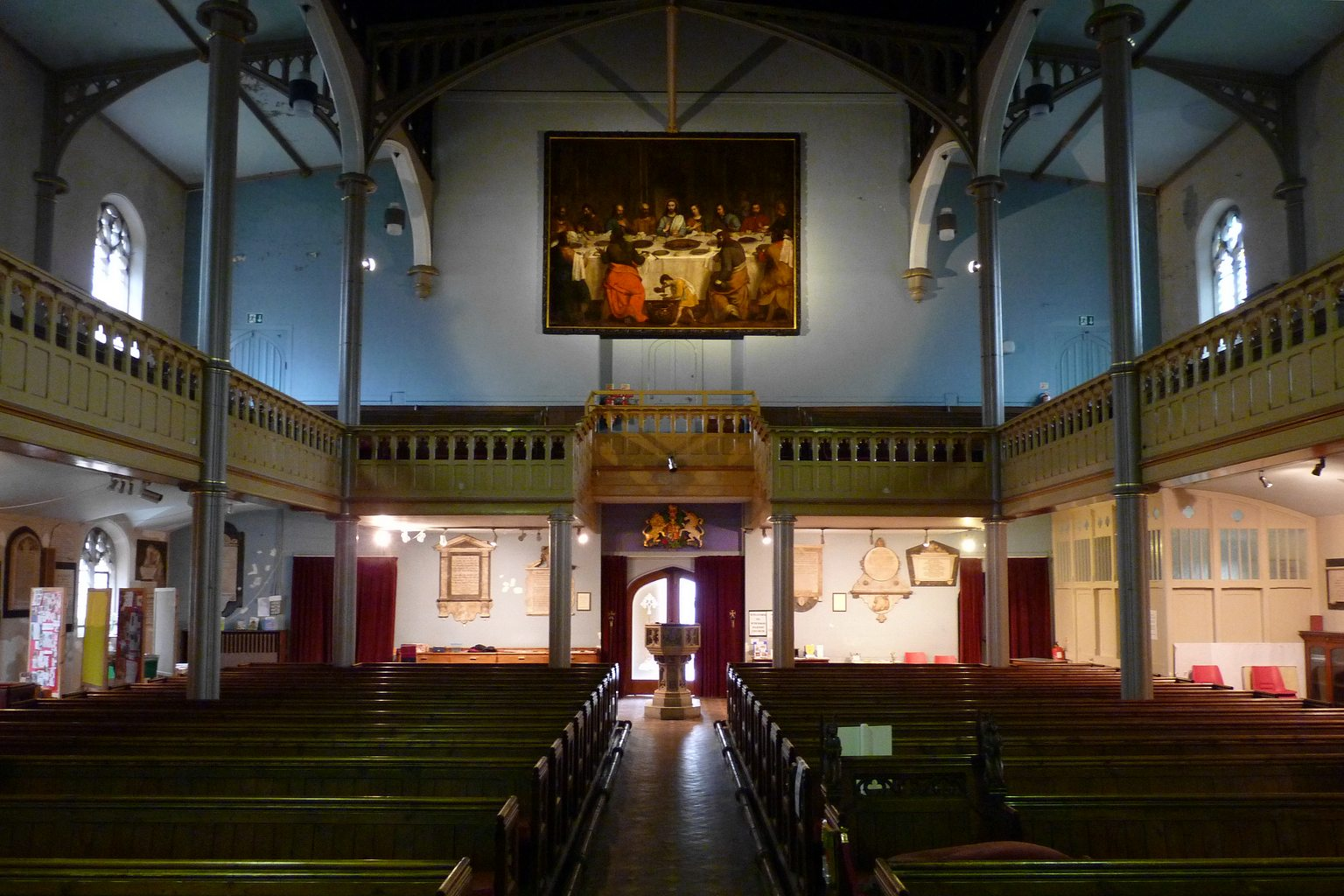 The Last Supper by Franz de Cleyn in the West Gallery of Windsor parish church of St John The Baptist. [1]